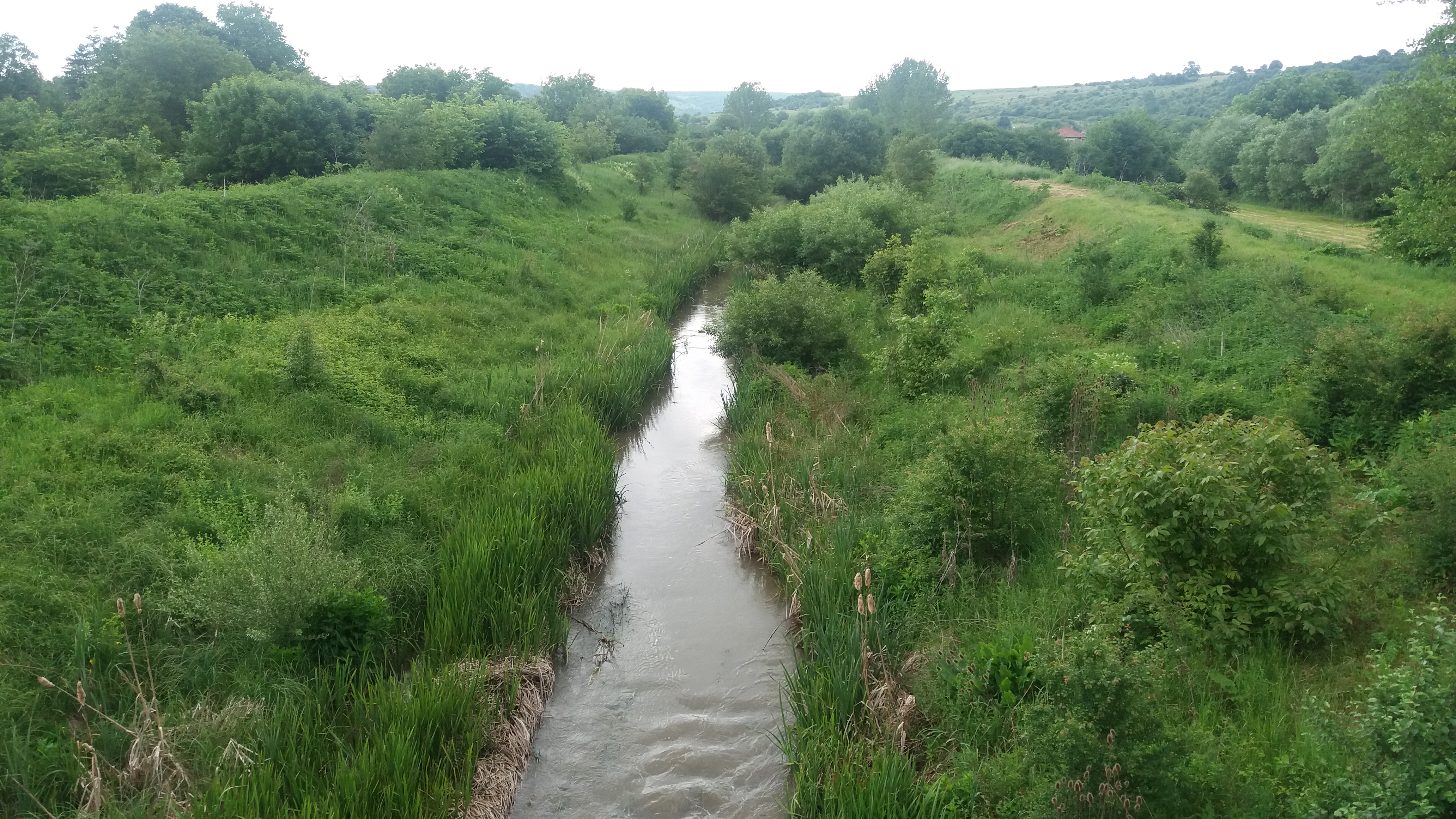 Beli Lom riverbed as seen from Ushintzi village bridge